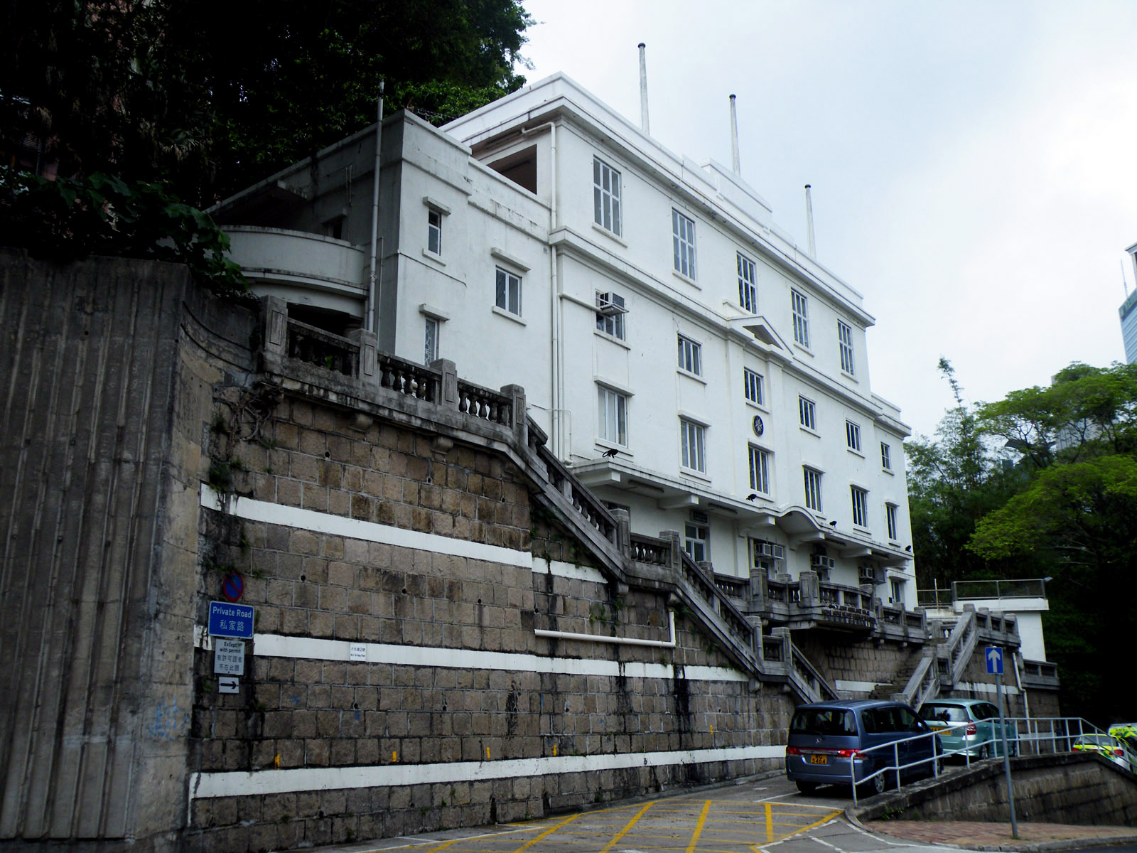 St. John Ambulance Brigade Hong Kong Island Area Headquarters